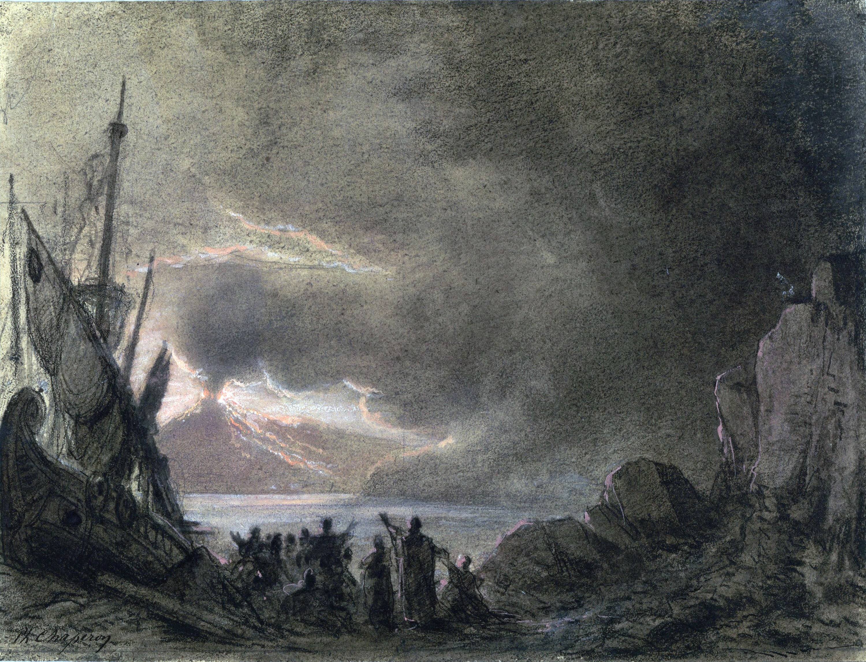 Design sketch for Act 4, tableau 2, of the opera Le dernier jour de Pompéï by Victorin de Joncières, as first presented at the Théâtre Lyrique in Paris on 21 September 1869